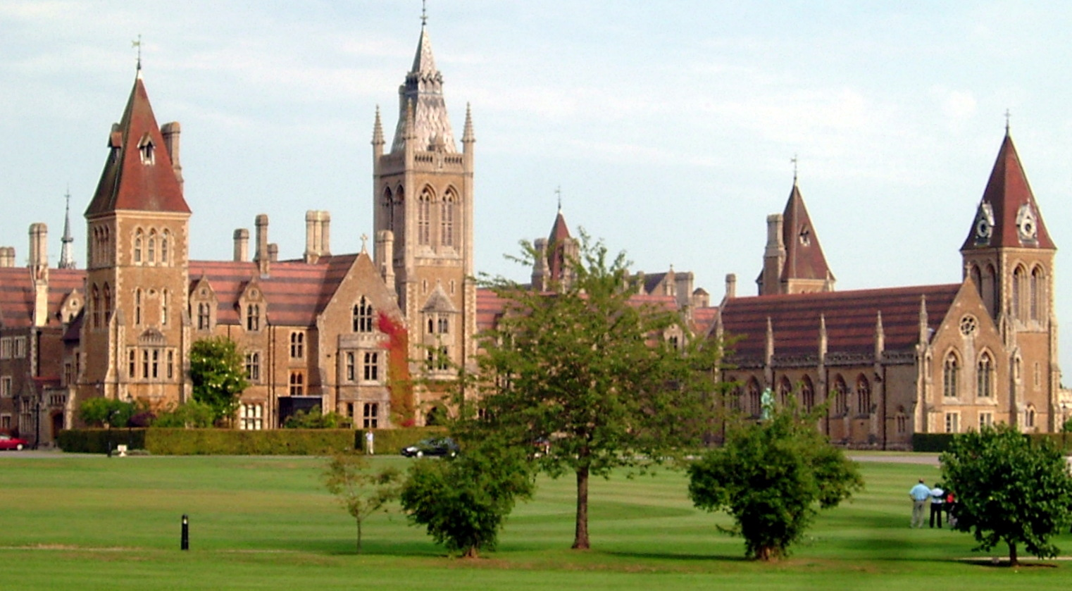 Charterhouse School, Surrey